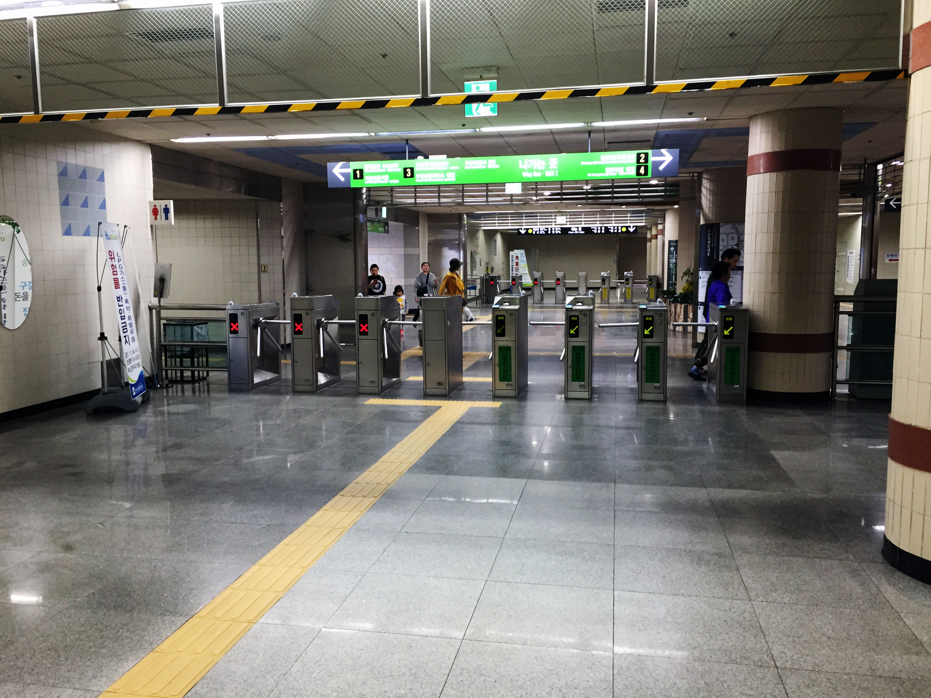 Ticket Barrier of Busan International Finance Center·Busan Bank Station